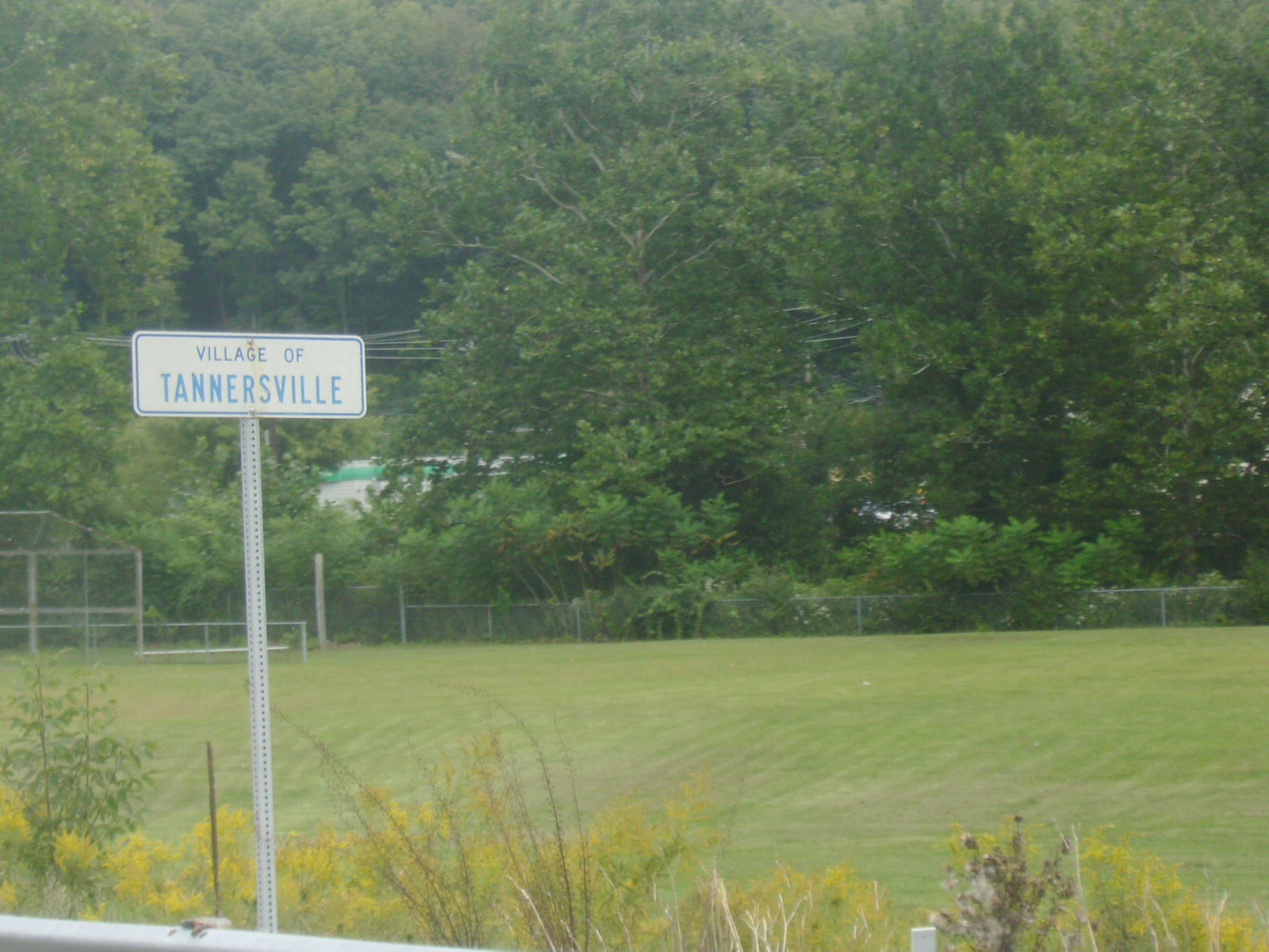 Entering the village of Tannersville, Pennsylvania from Pennsylvania Route 715 northbound. Pennsylvania Department of Transportation always uses these blue and white signs to designate when the route enters a community.